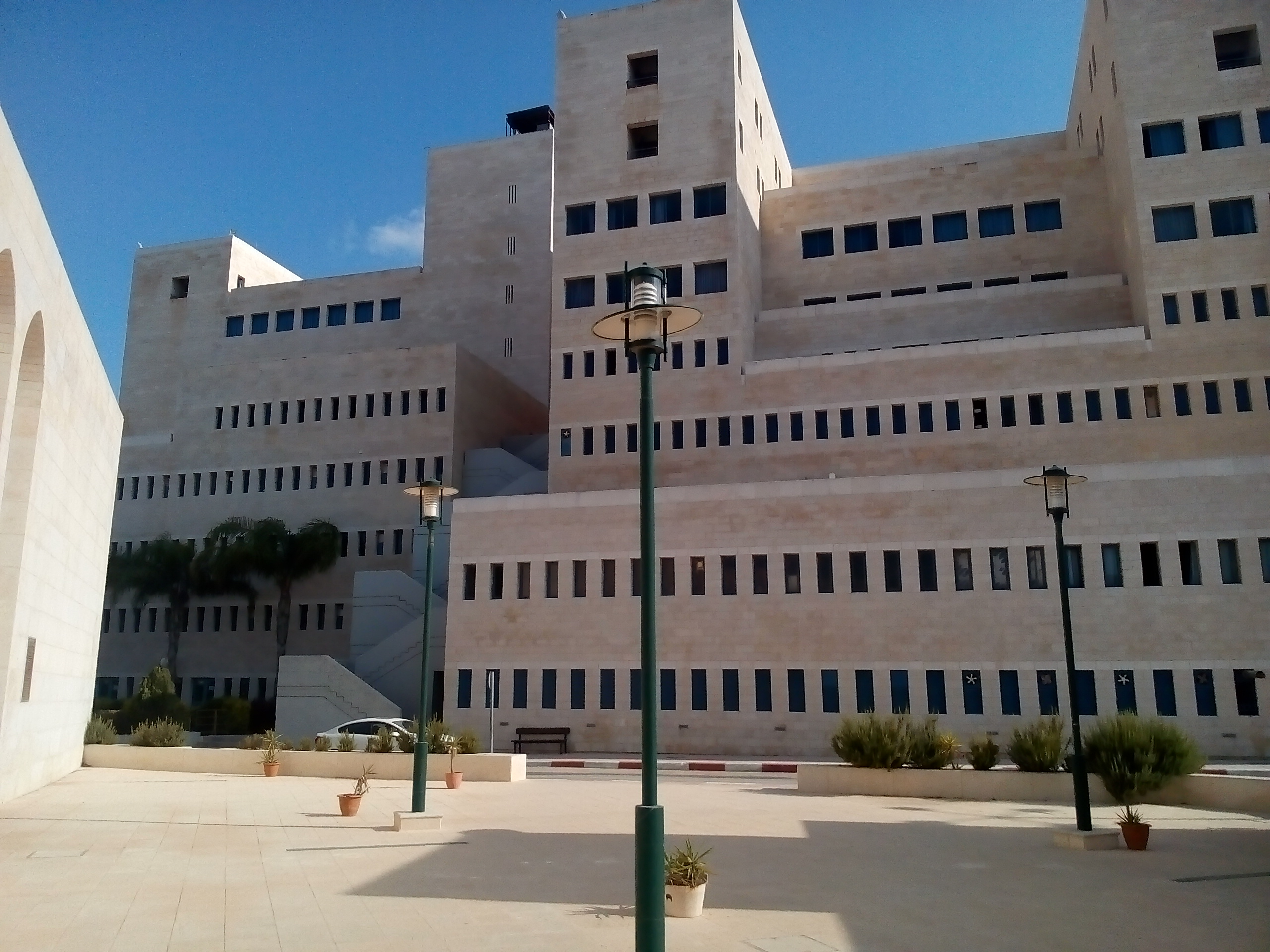 General view of Faculty of Science at An - Najah National University